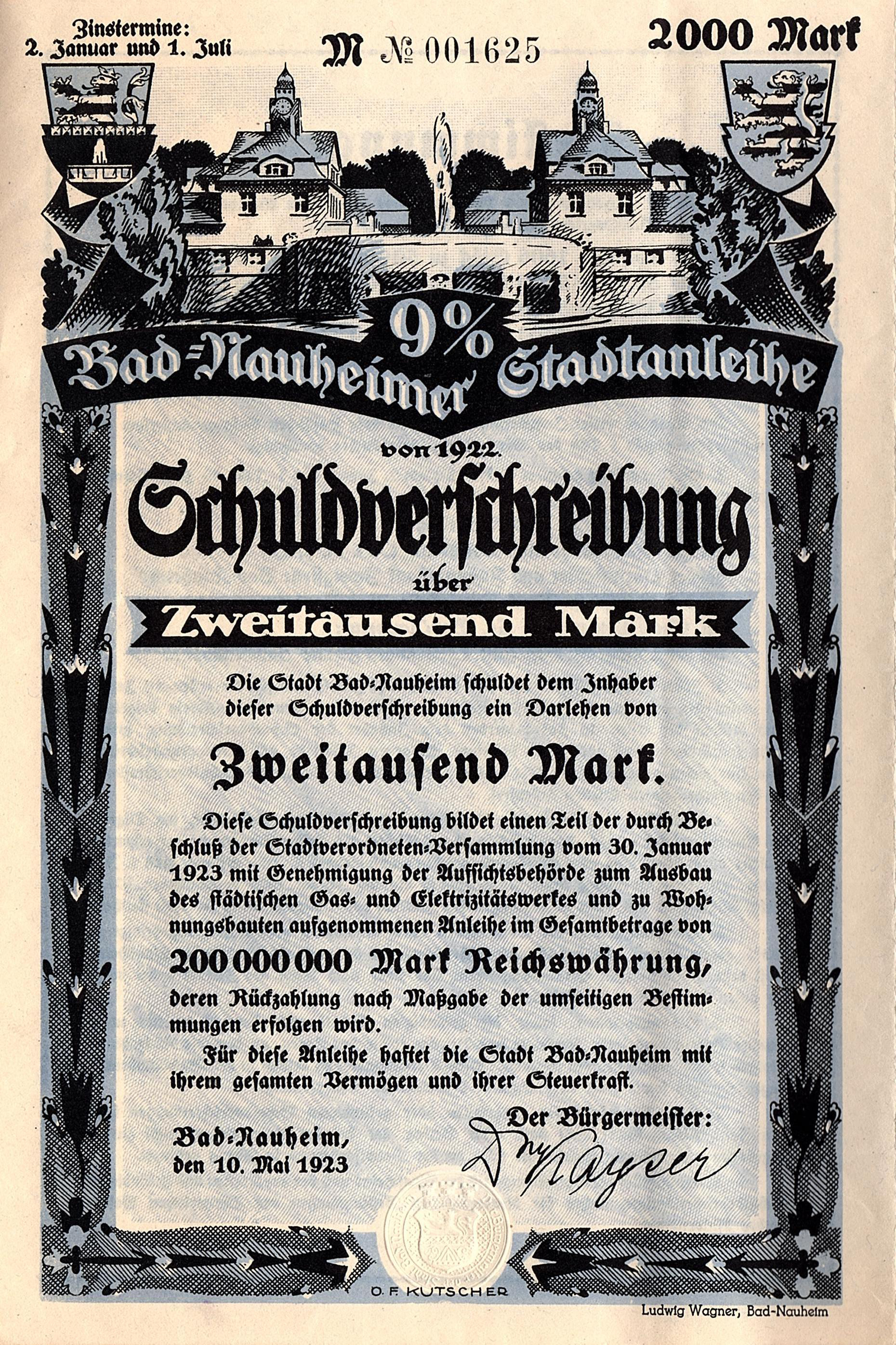 Bond of the city of Bad Nauheim, issued 10. May 1923